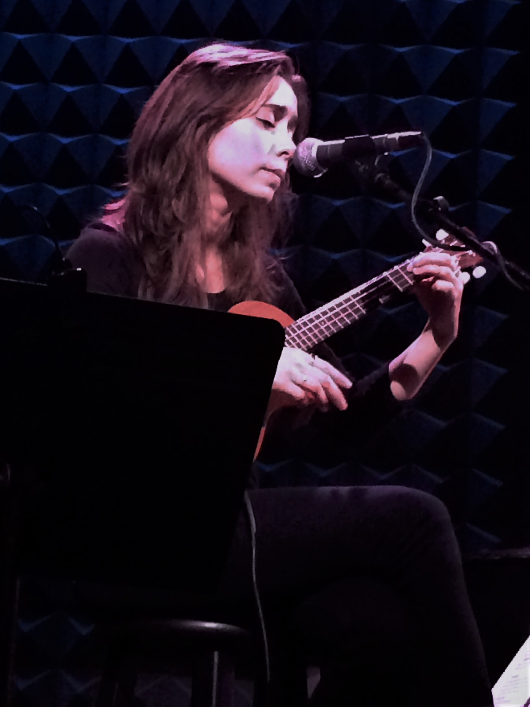 Cristin Milioti playing the ukelele, New York City, December 8, 2013. Taken by QZ Lau. Original can also be found here